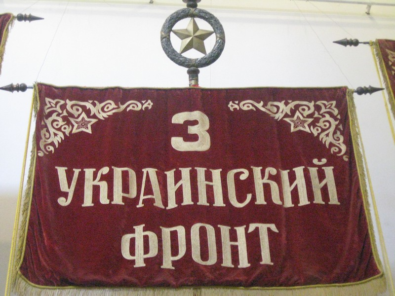 Regimental colours of the 3rd Ukrainian Front